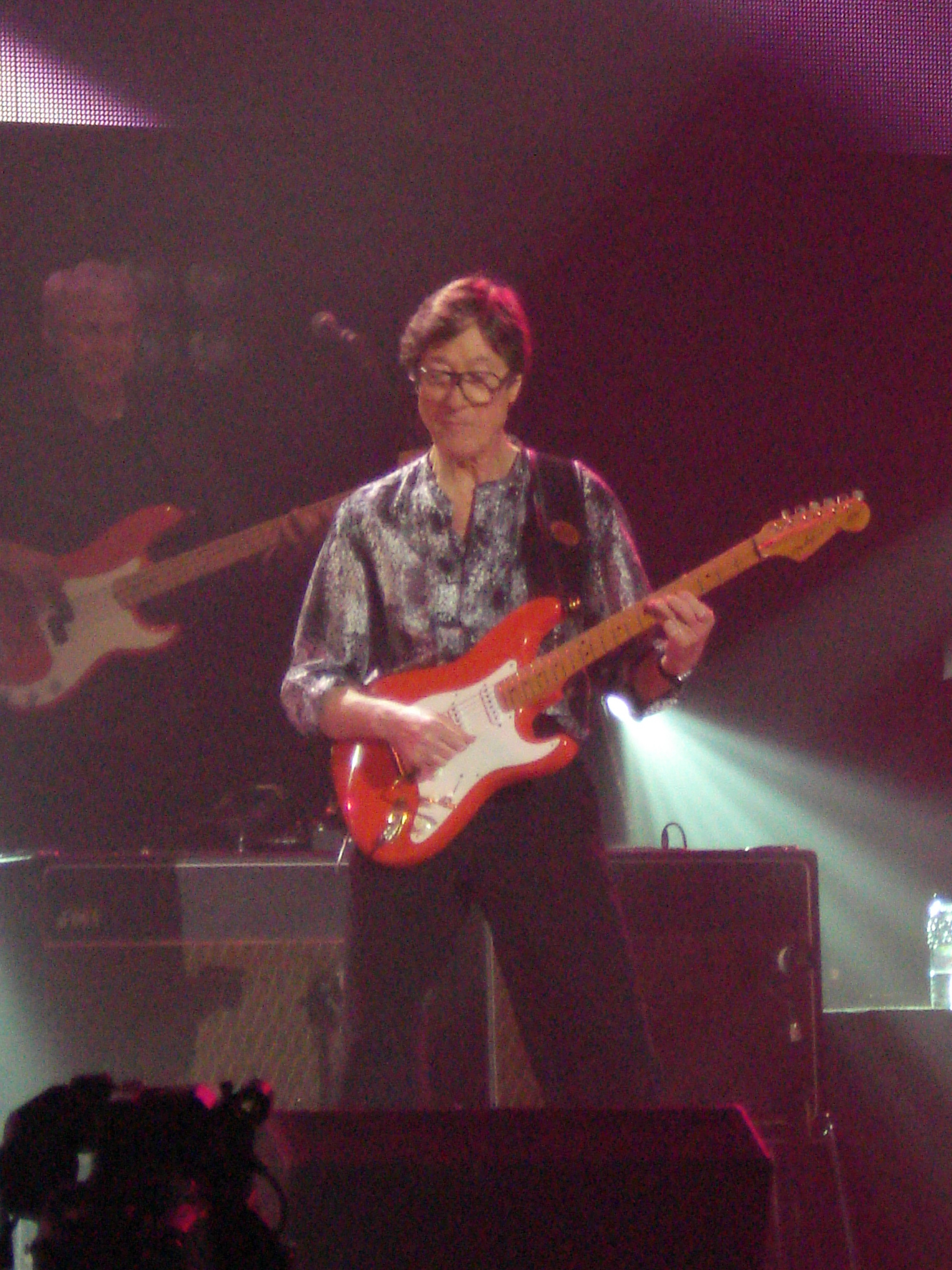 Hank Marvin in Brussels with the Shadows in 2009